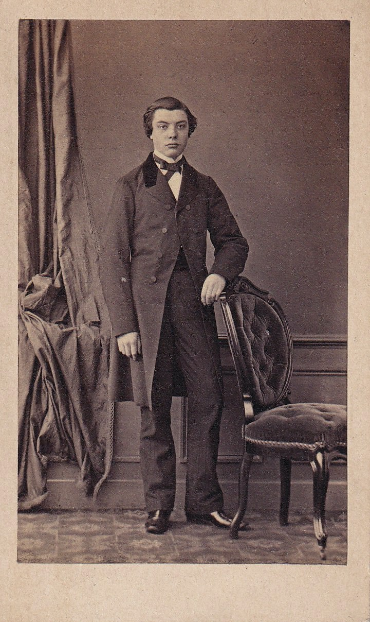 Léon Philippe Van Dievoet